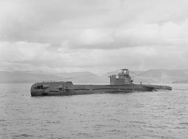 British T class submarine HMSM TABARD underway.